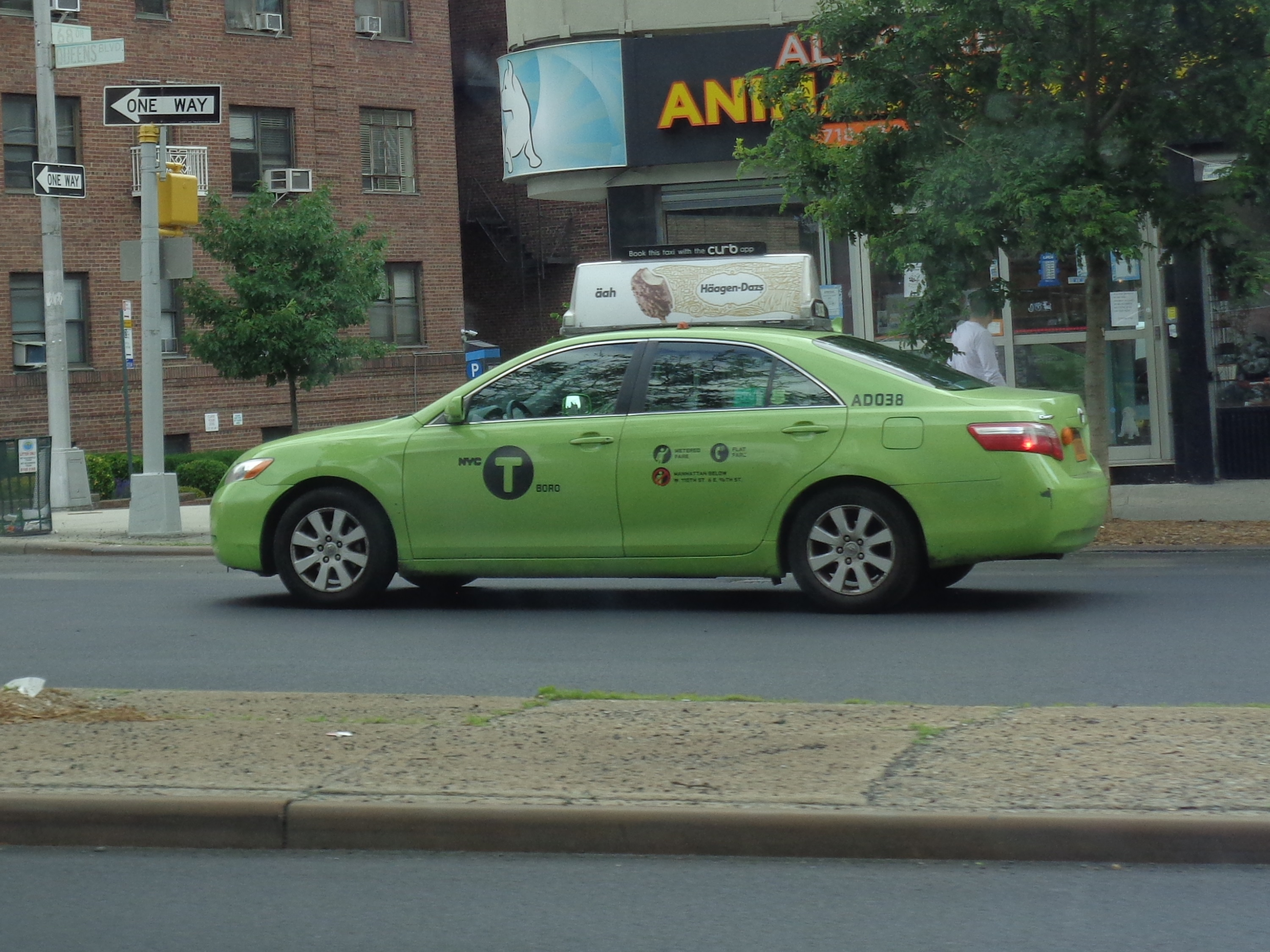 A Boro Cab traveling west on Queens Boulevard at 68th Drive in Queens.